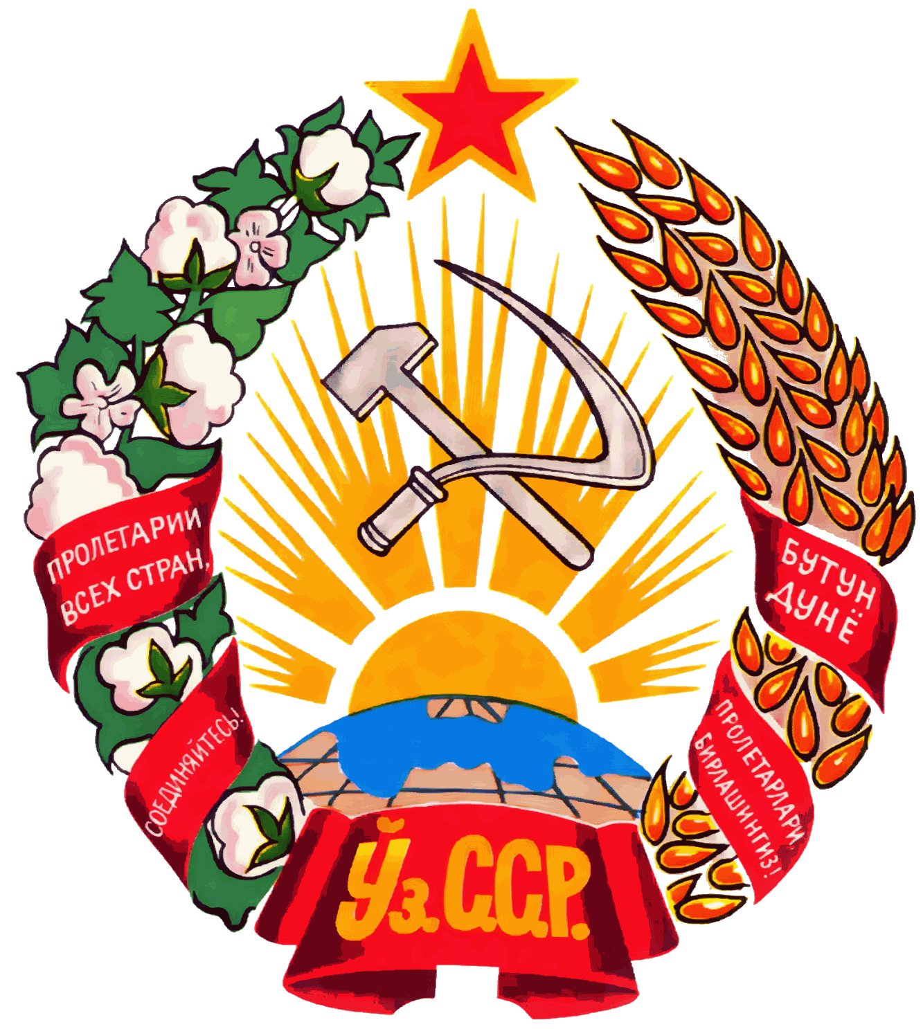 Coat of arms of Uzbek SSR